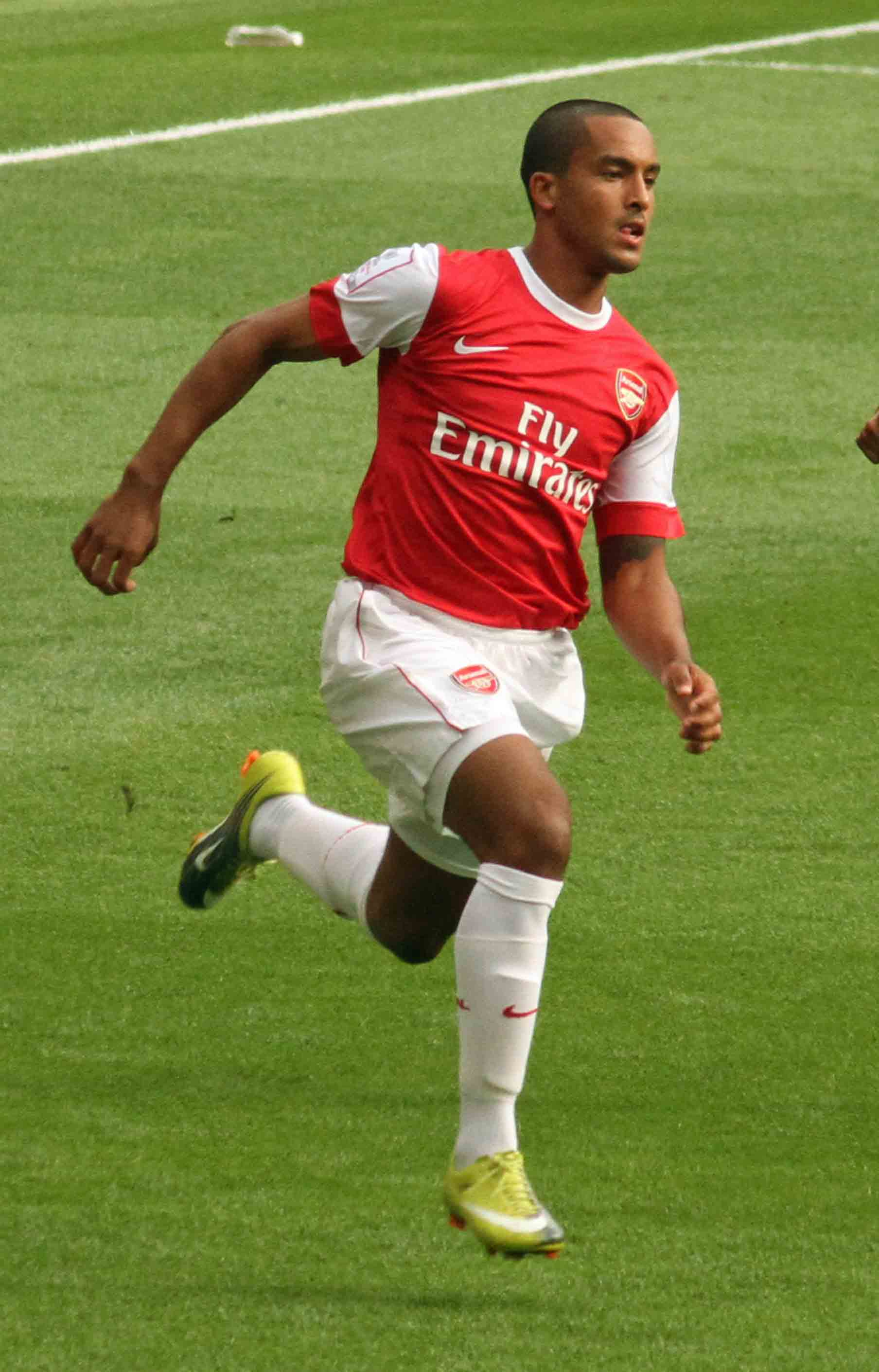 Theo Walcott during Emirates Cup 2010